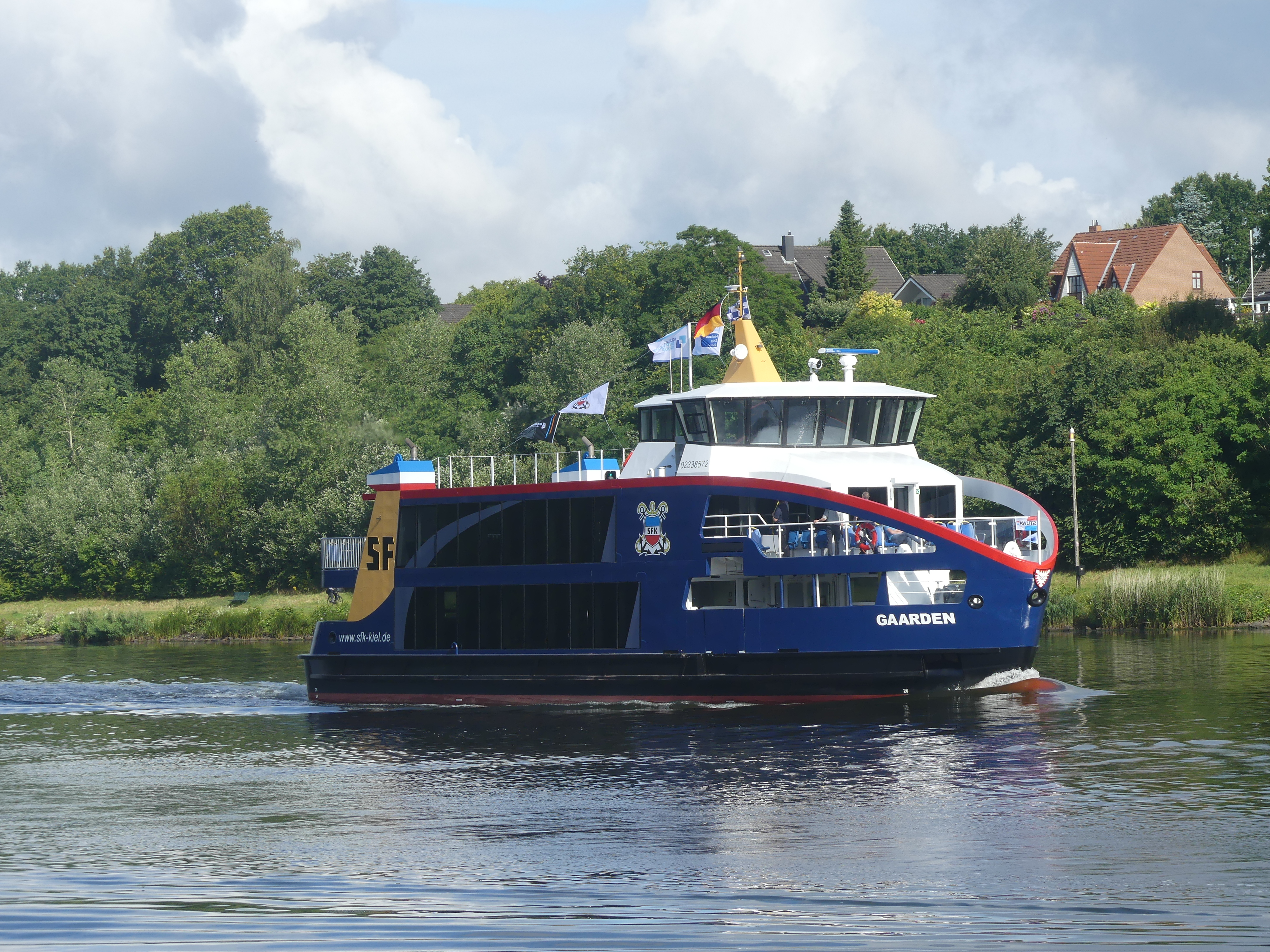 Passenger ship Gaarden in the Kiel Canal in Königsförde.